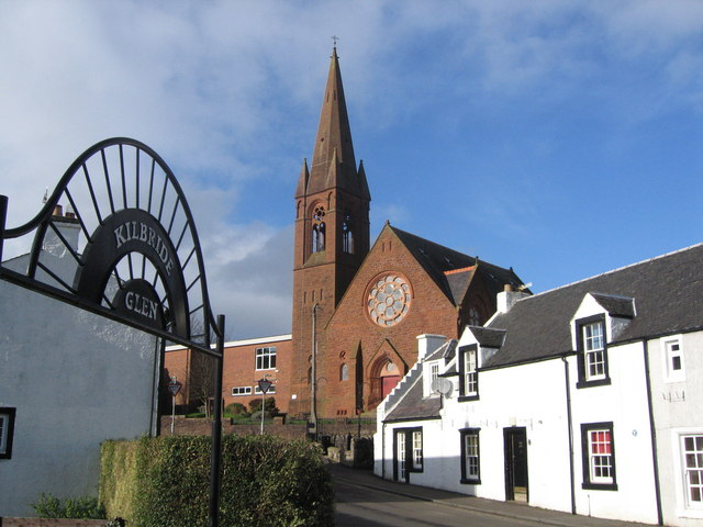 St. Andrews Church, West Kilbride